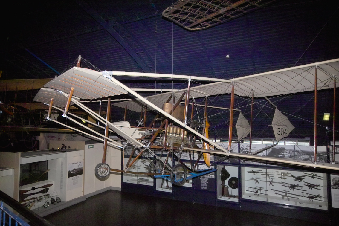 The second Cody V biplane built at the Science Museum, London. This aircraft was retired from use by the Royal Flying Corps and donated to the Science Museum after the fatal crash of the first example in 1913.